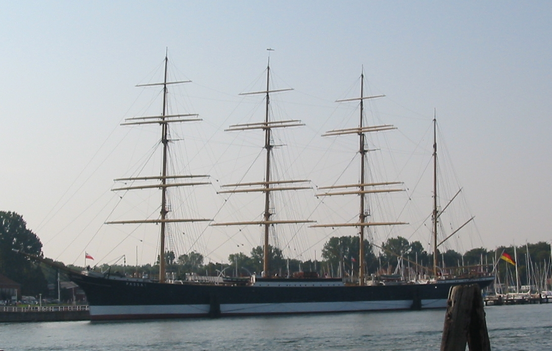 Flying P-Liner Passat. Photo by Asteriontalk